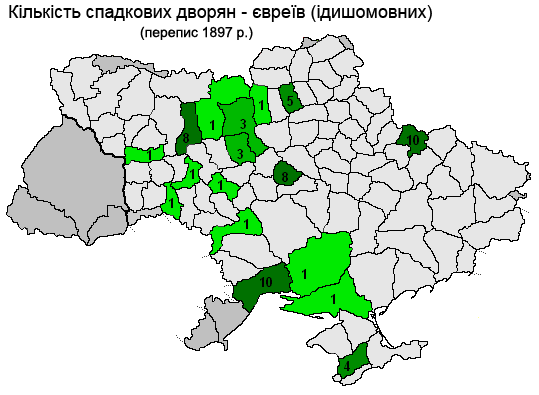 Number of jews (yiddish-speakers) among the hereditary nobility of Russian Empire, census 1897